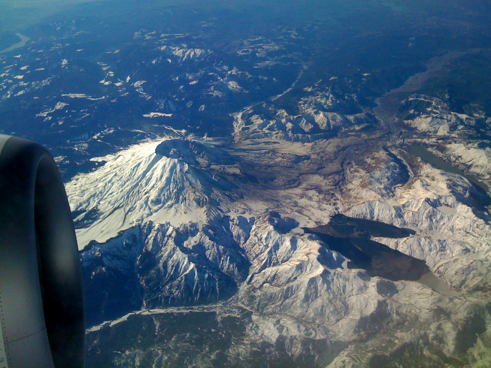 Aerial view of Mount St. Helens